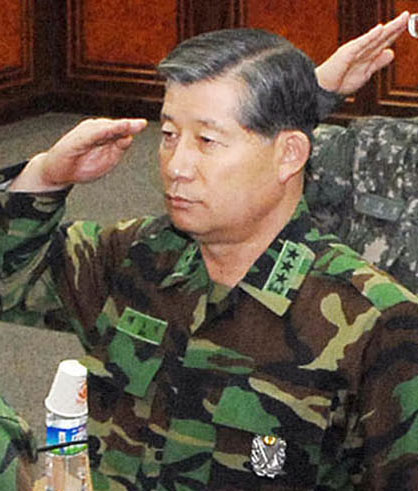 Lieutenant General Bae Deag-sig, Commander of the Republic of Korea Armed Forces's Defense Security Command (DSC)